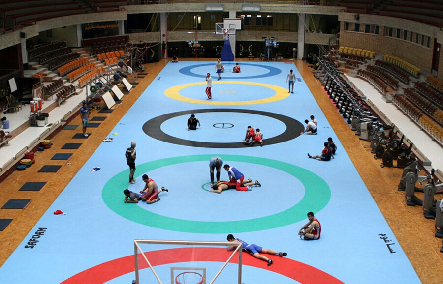 Home Wrestling (Wrestling Hall) - Azadi Sport Complex